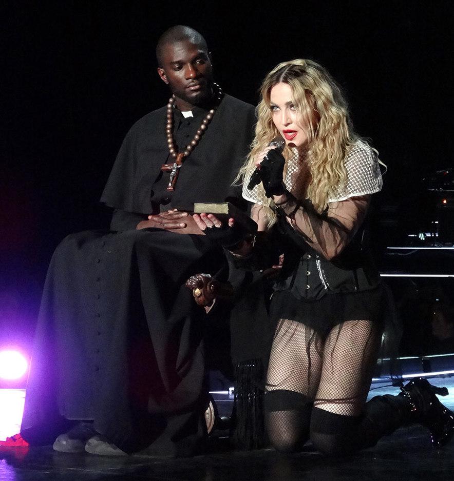 Madonna performing "Devil Pray" during her Rebel Heart Tour concert in Antwerp, Belgium on November 28, 2015.